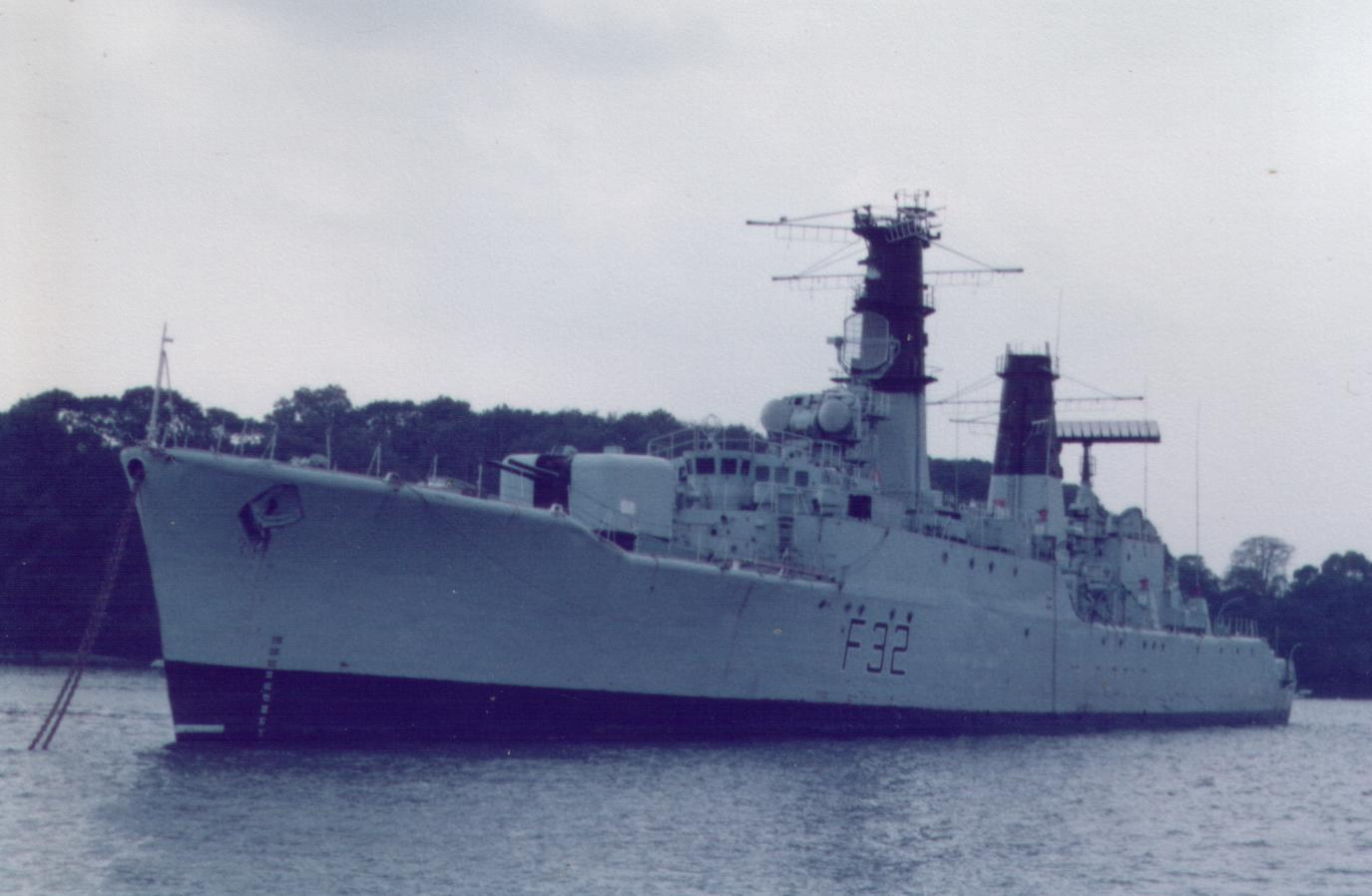 HMS Salisbury at Plymouth in 1983